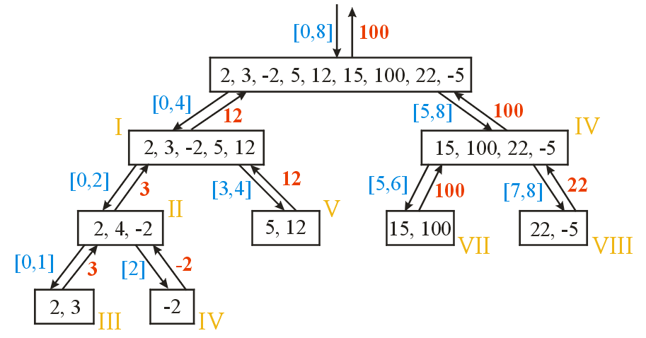 A scheme of finding the maximal value of an array by the principle divide et impera. Colors: (blue) - the (sub)interval, (red) - returned maximum of a (sub)array, (yellow) - the order of subarray processing